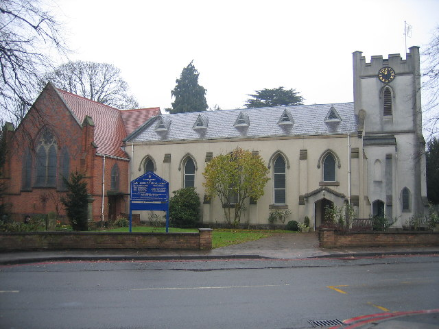 St James the Great parish church, Stratford Road, Shirley, West Midlands, seen from the south